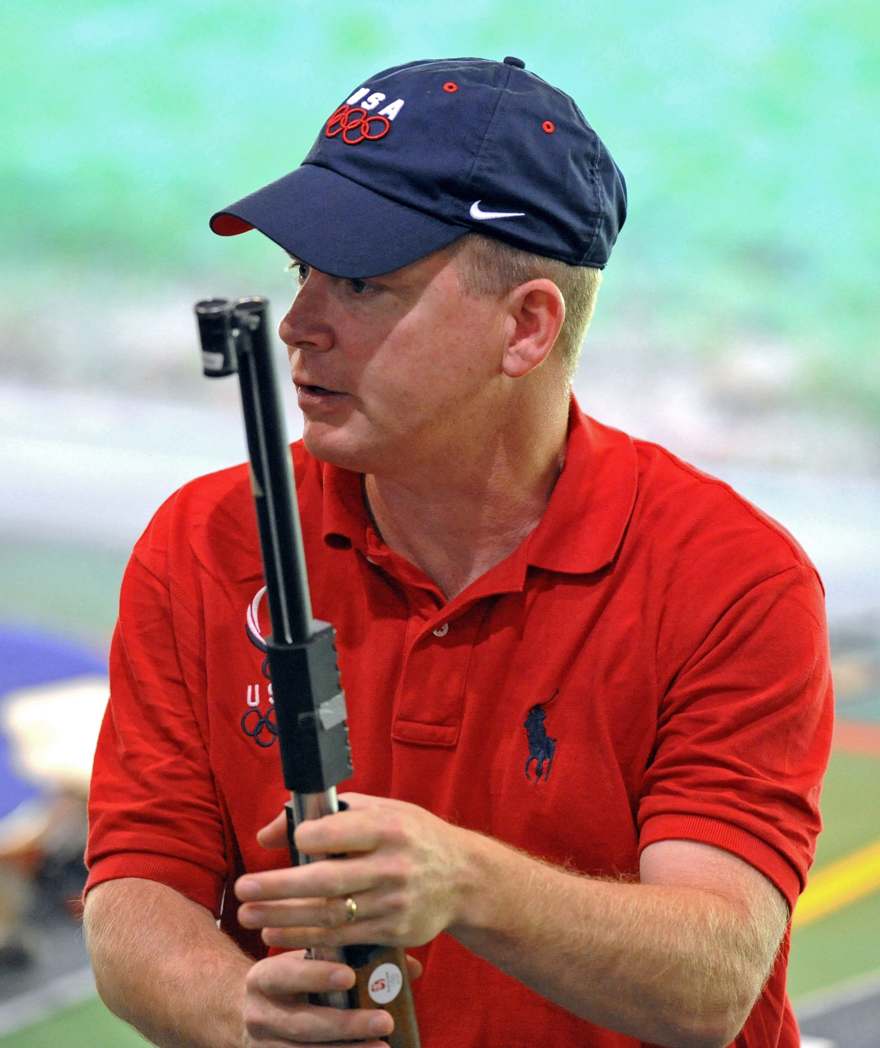 U.S. Army World Class Athlete Program marksman Maj. Michael Anti walks away from what may be the last of his four Olympic appearances as a competitor with a ninth-place finish in Olympic 50-meter rifle prone Aug. 15 at the Beijing Shooting Range Hall. (original text)